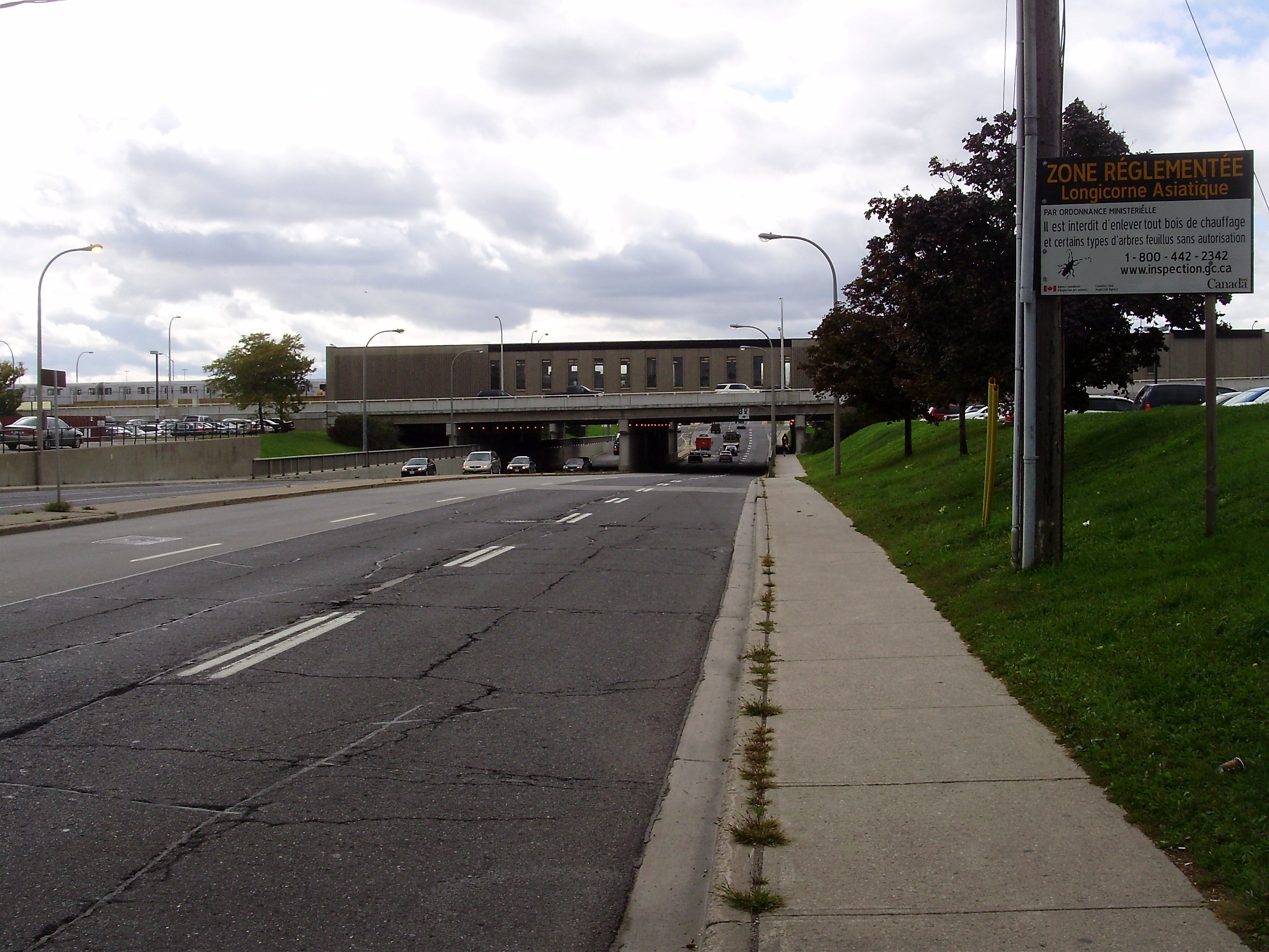 Looking westward, Allen Road and a portion of the Toronto Transit Commission's Wilson station span Wilson Avenue east of Dufferin Street in Toronto, Ontario, Canada. The sign in the foreground is a notification that the area is host to an Asian long-horned beetle infestation.